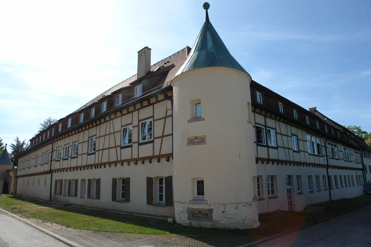 The Schadenweilerhof is approx. 2 km south of Rottenburg am Neckar.